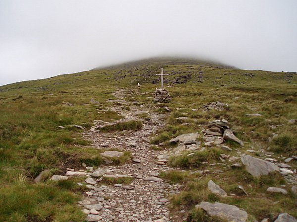 Cosan na Naomh (Pilgrim's route) The pilgrims route at about 500m altitude. Cloud can be seen shrouding the summit of Mt Brandon in the distance (much further than it looks!)